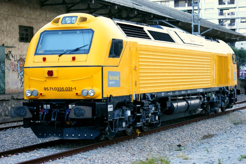 335.031 of Ferrovial-Agroman, parked in the Granollers-Centre station (Spain).